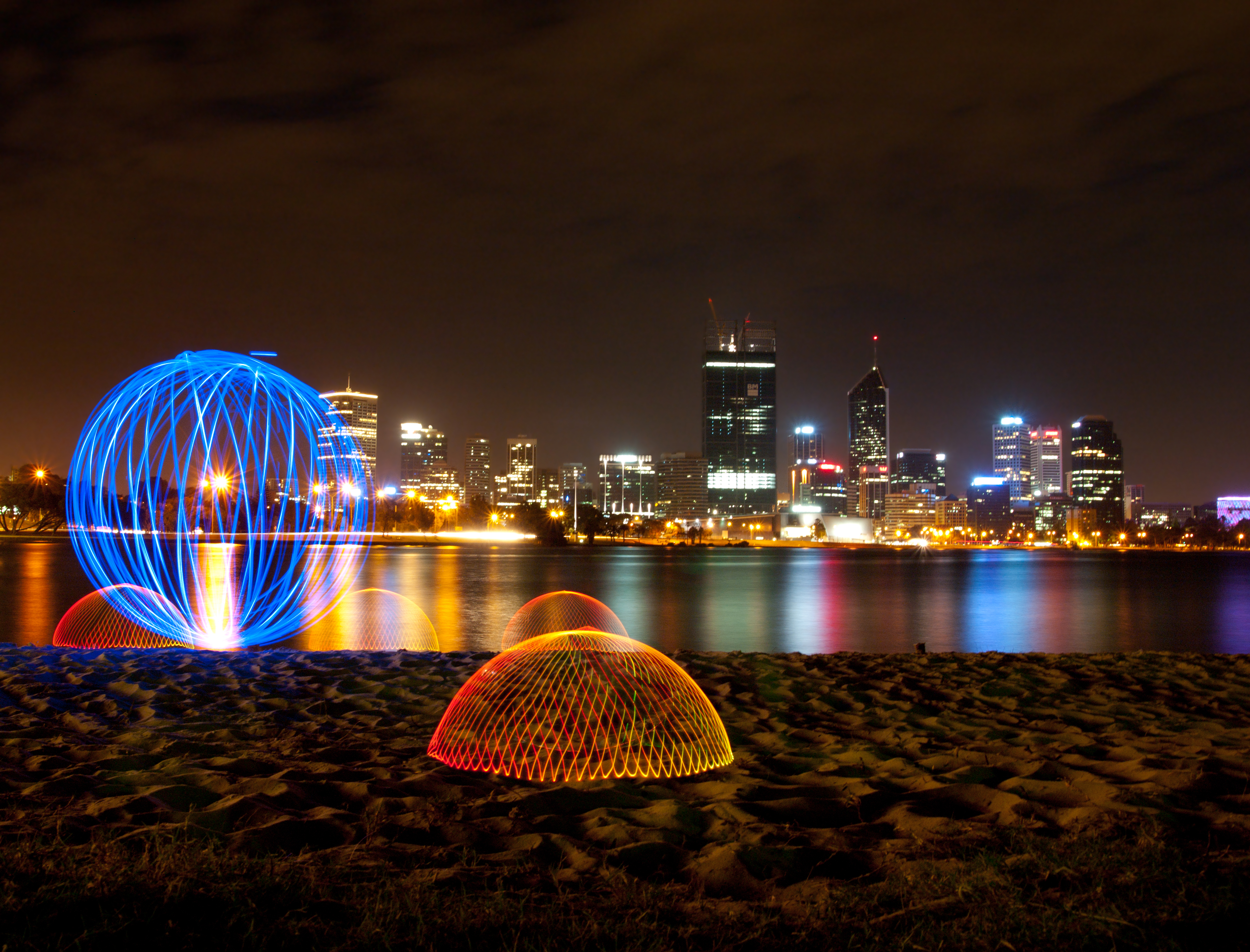 Light painting, orb and domes on the bank of the Swan River, Perth, Western Australia.